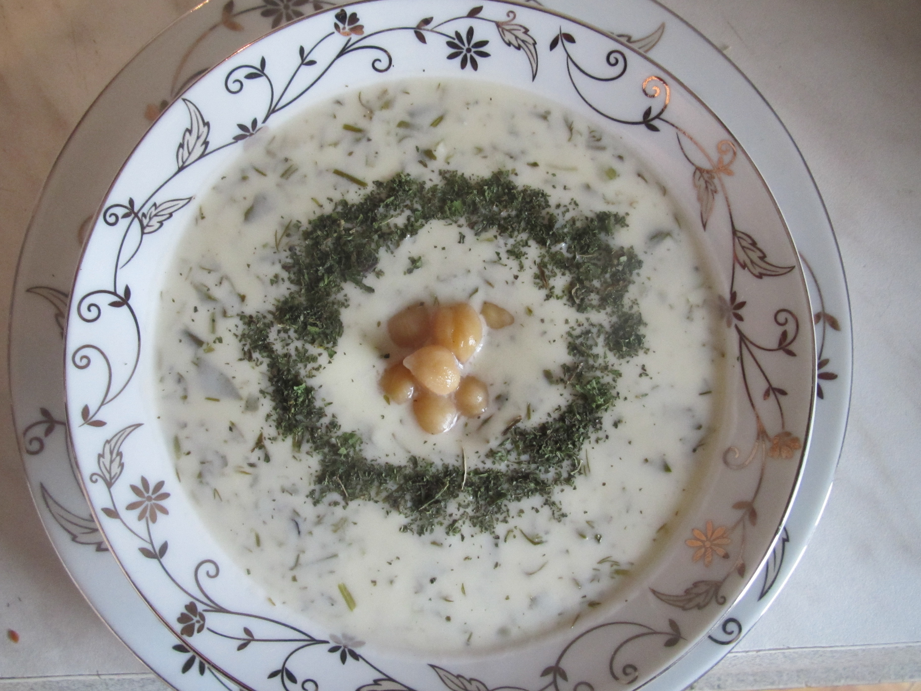 Dovga is a national meal of Azerbaijani cuisine.